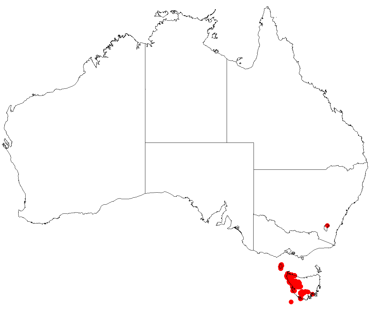 Allocasuarina zephyrea Occurrence data from AVH